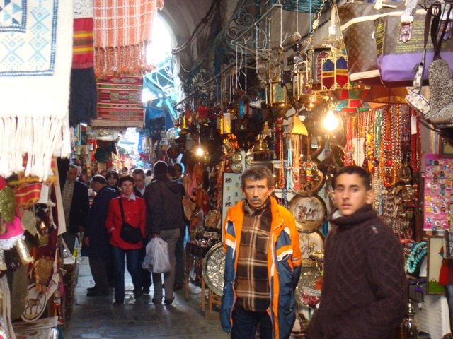 Medina, Tunis, Tunisia.